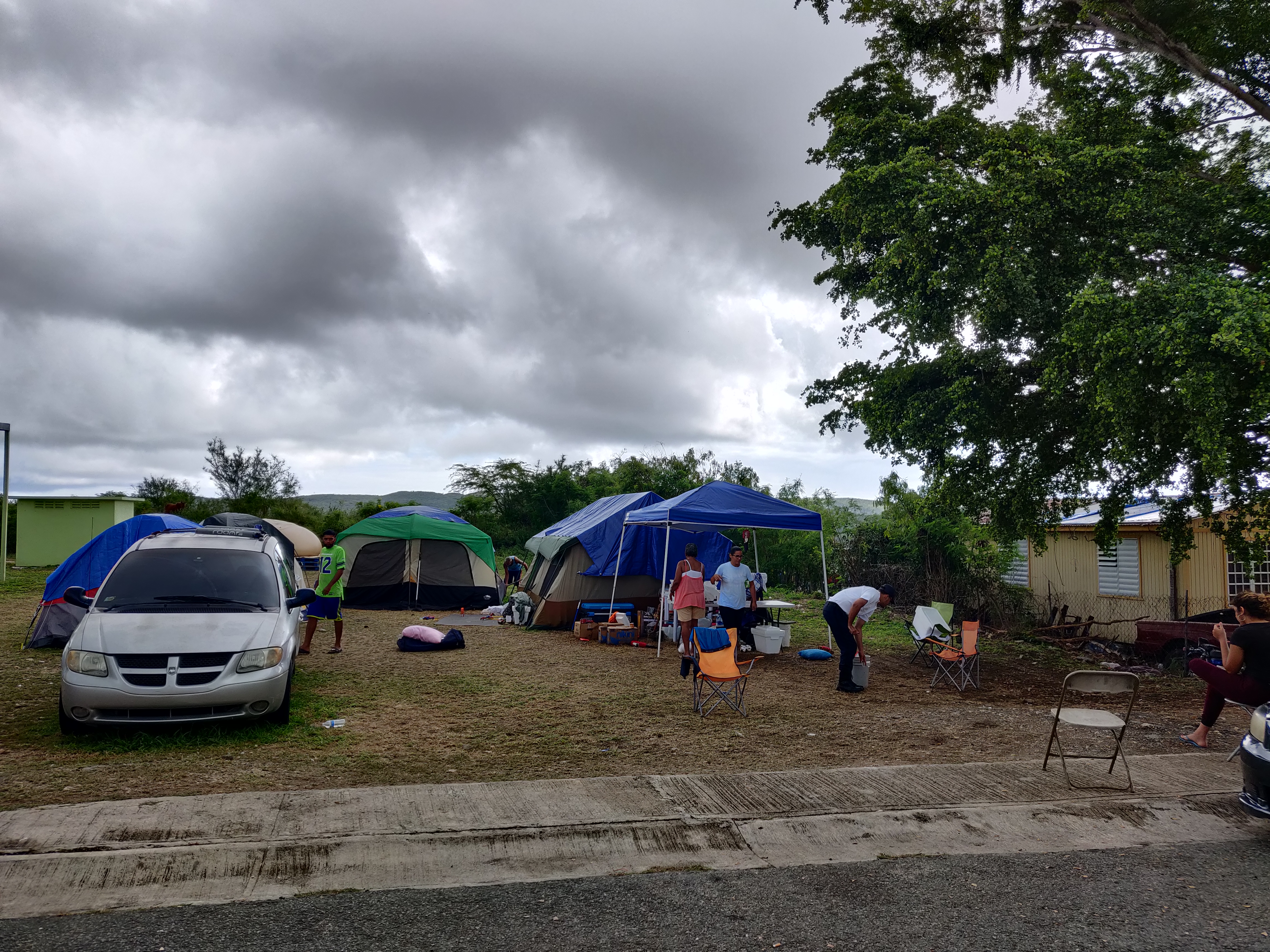 View of an informal refugee's camp in Guanica, Puerto Rico, two weeks after January 7th, 2020 earthquake.